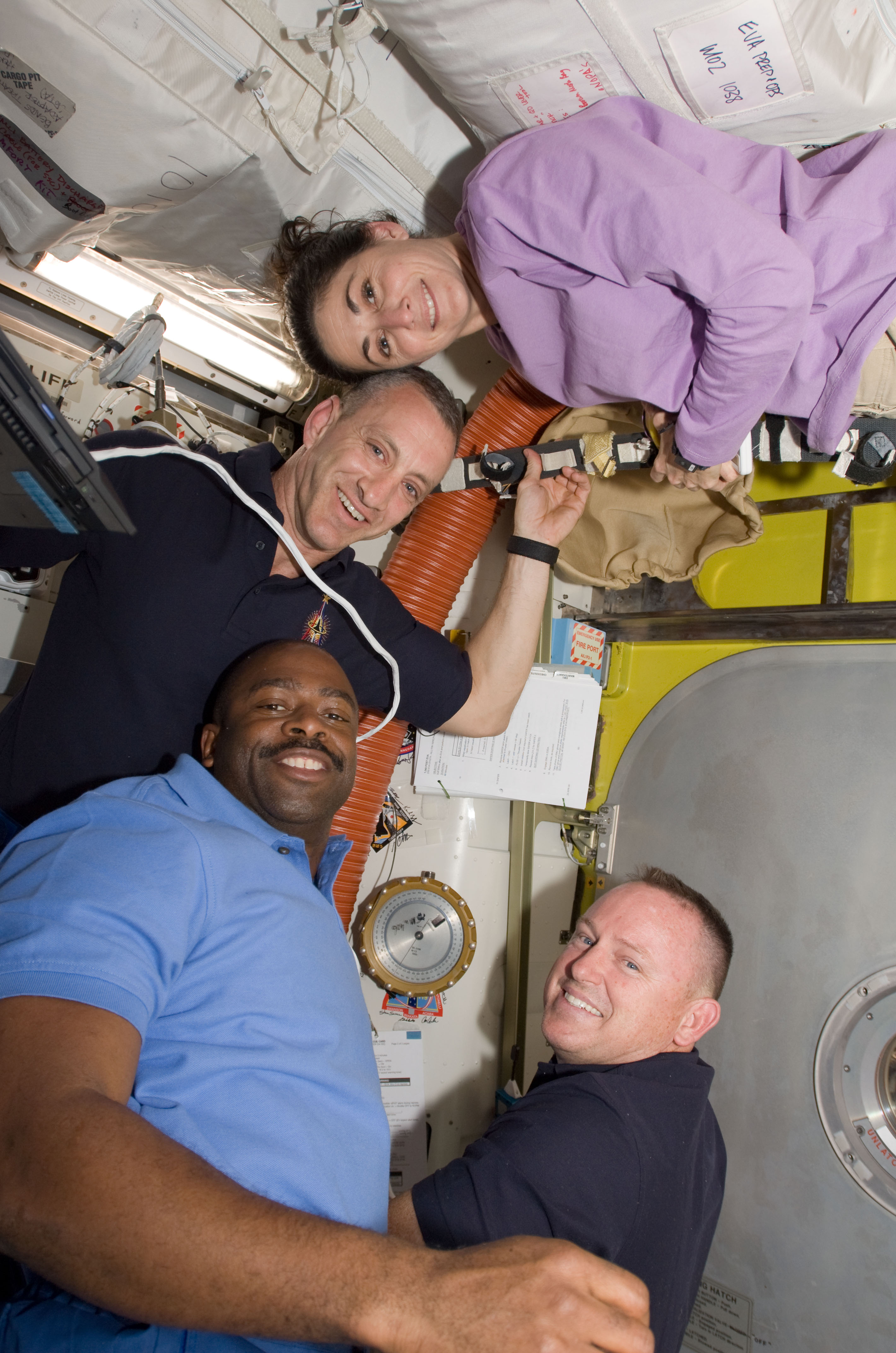 Astronauts Charles O. Hobaugh (top left), STS-129 commander; Barry E. Wilmore (bottom right), pilot; Leland Melvin and Nicole Stott, both mission specialists, pose for a photo in the Quest airlock of the International Space Station after closing the hatch to begin the mission's first spacewalk.